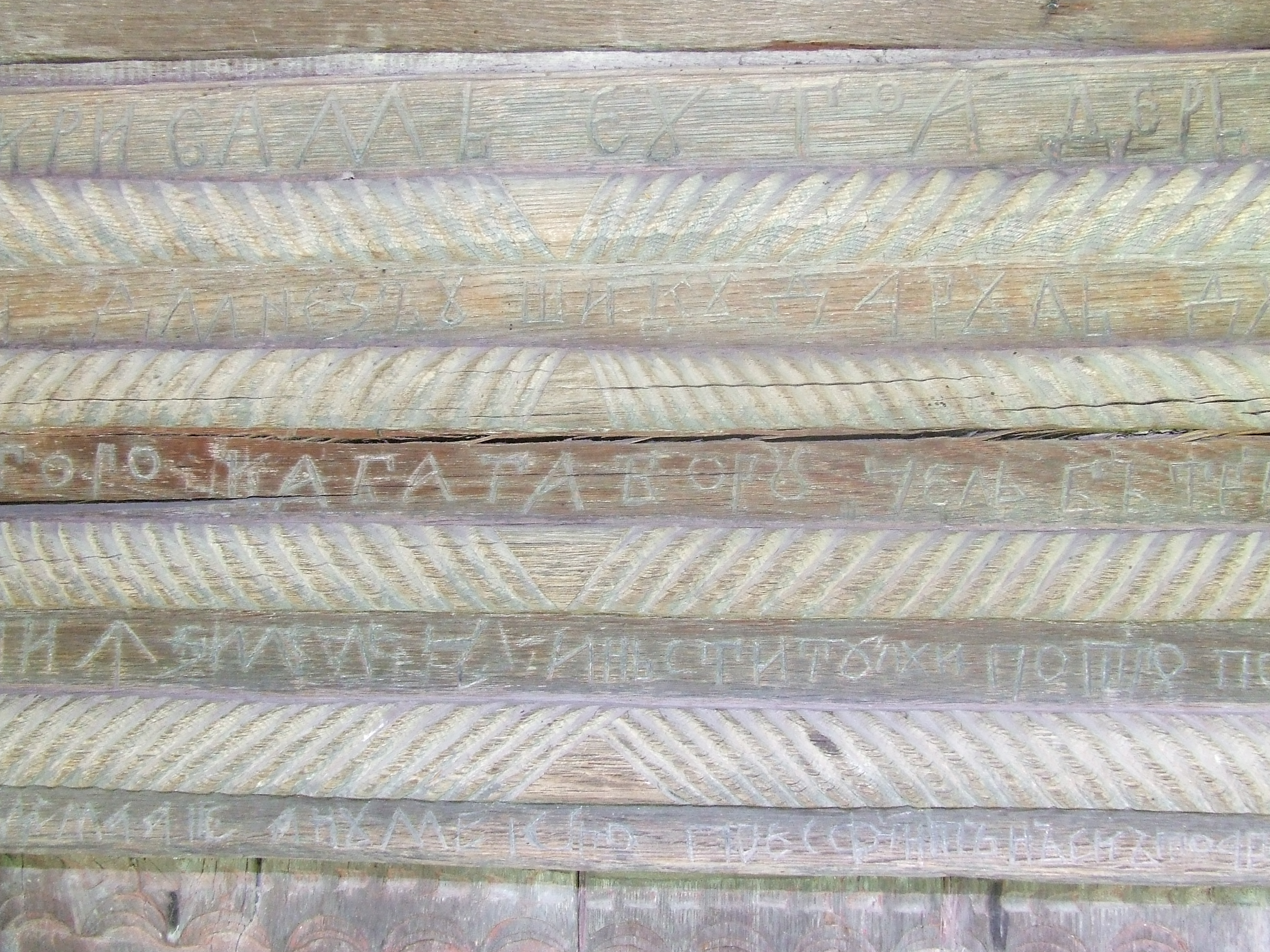 Cyrillic foundation inscription from 1723 on the wooden church of Beznea, Bihor County, Romania